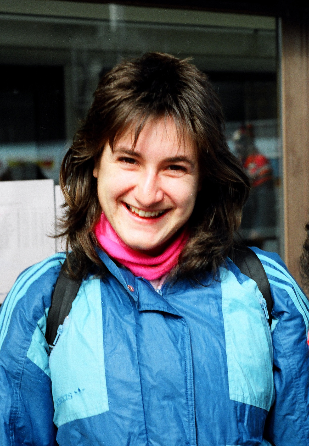 Heike Warnicke (aka Schalling) is a former German speedskater